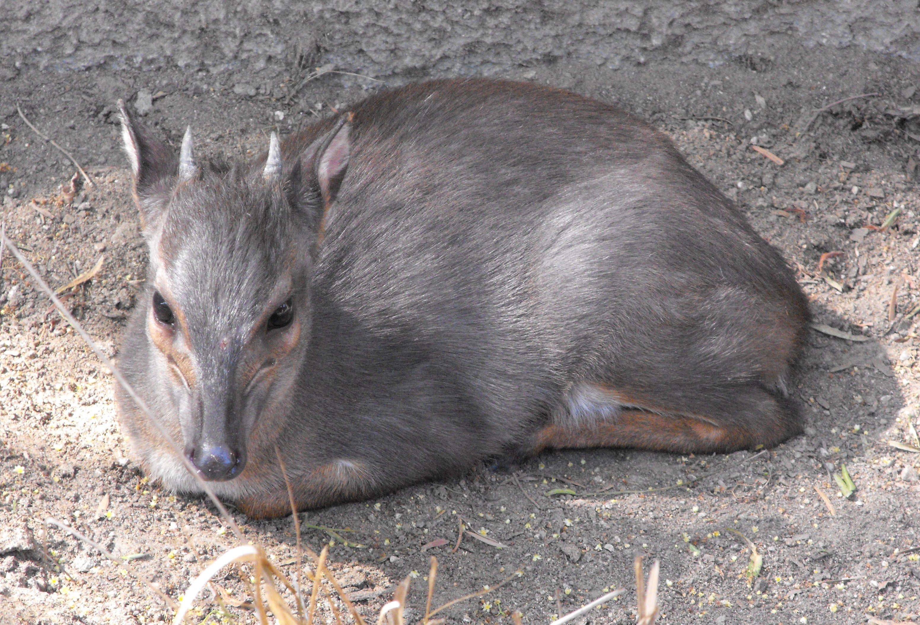 Cephalophus monticola ssp. monticola at the San Diego Zoo, California, USA.